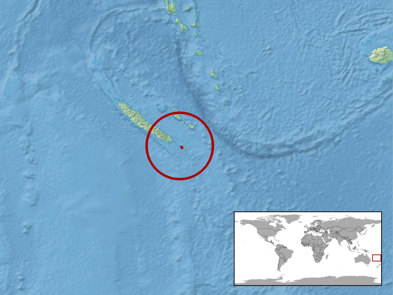 geographic distribution of Phoboscincus bocourti